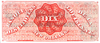 Creator: Banque Des Citoyens De La Louisiane. $10 banknote with French text "DIX". Source: Banknote from c. 1860. Via Louisiana State Museum [1]